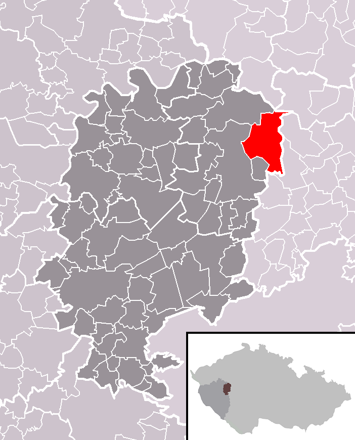 Location of Líšná municipality within Rokycany District and within identical administrative area of Rokycany as a Municipality with Extended Competence.